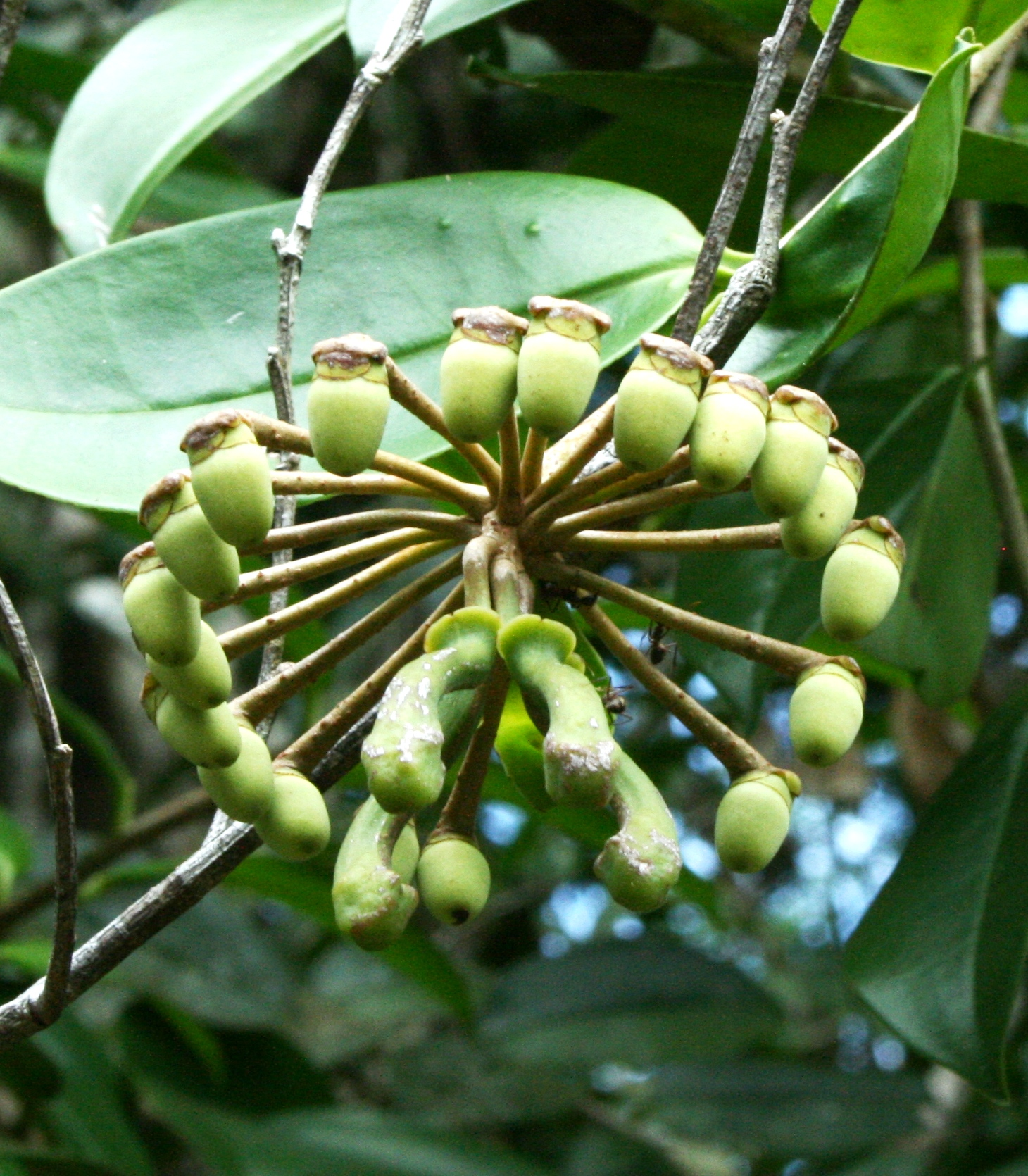 Fruiting Marcgravia coriacea, Rio Tabaro, Venezuela